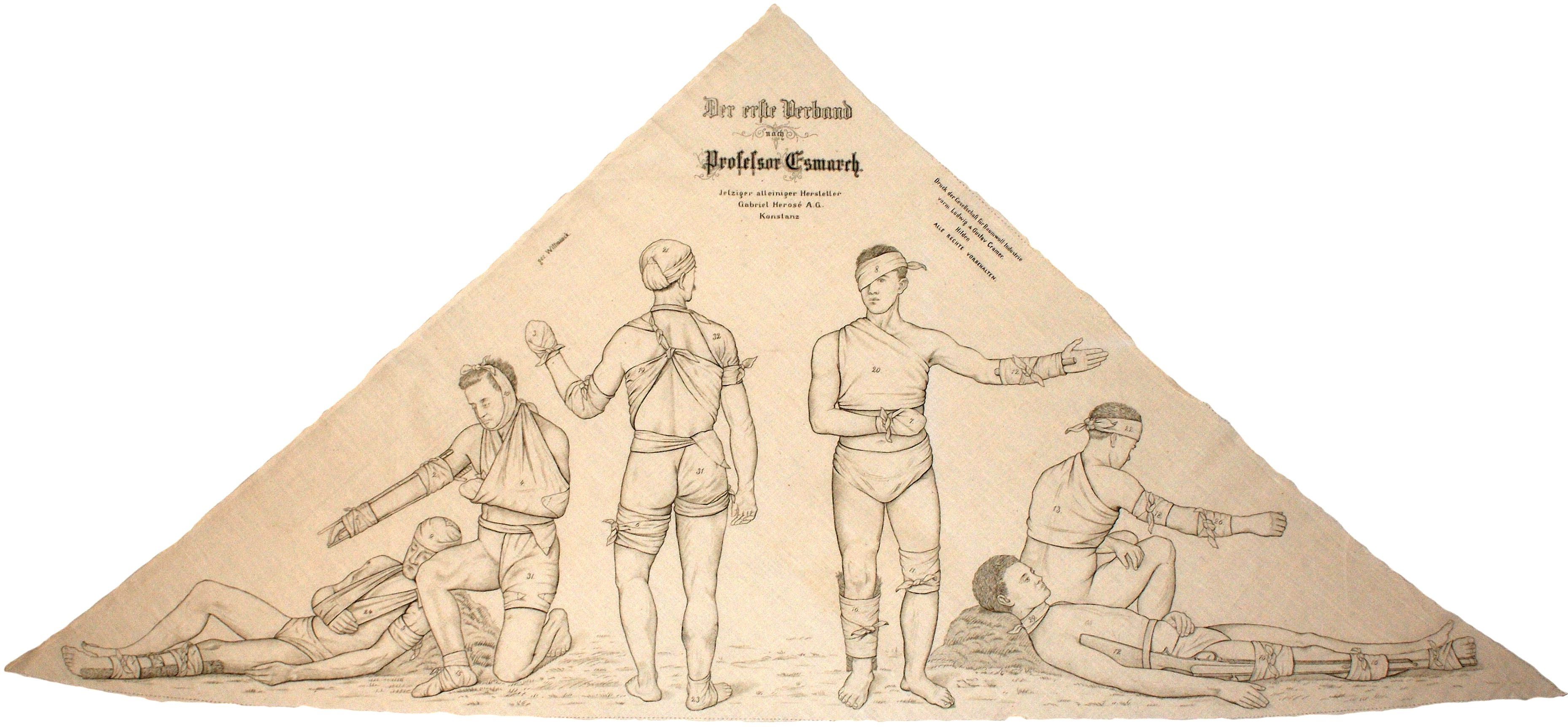 The original Esmarch bandage